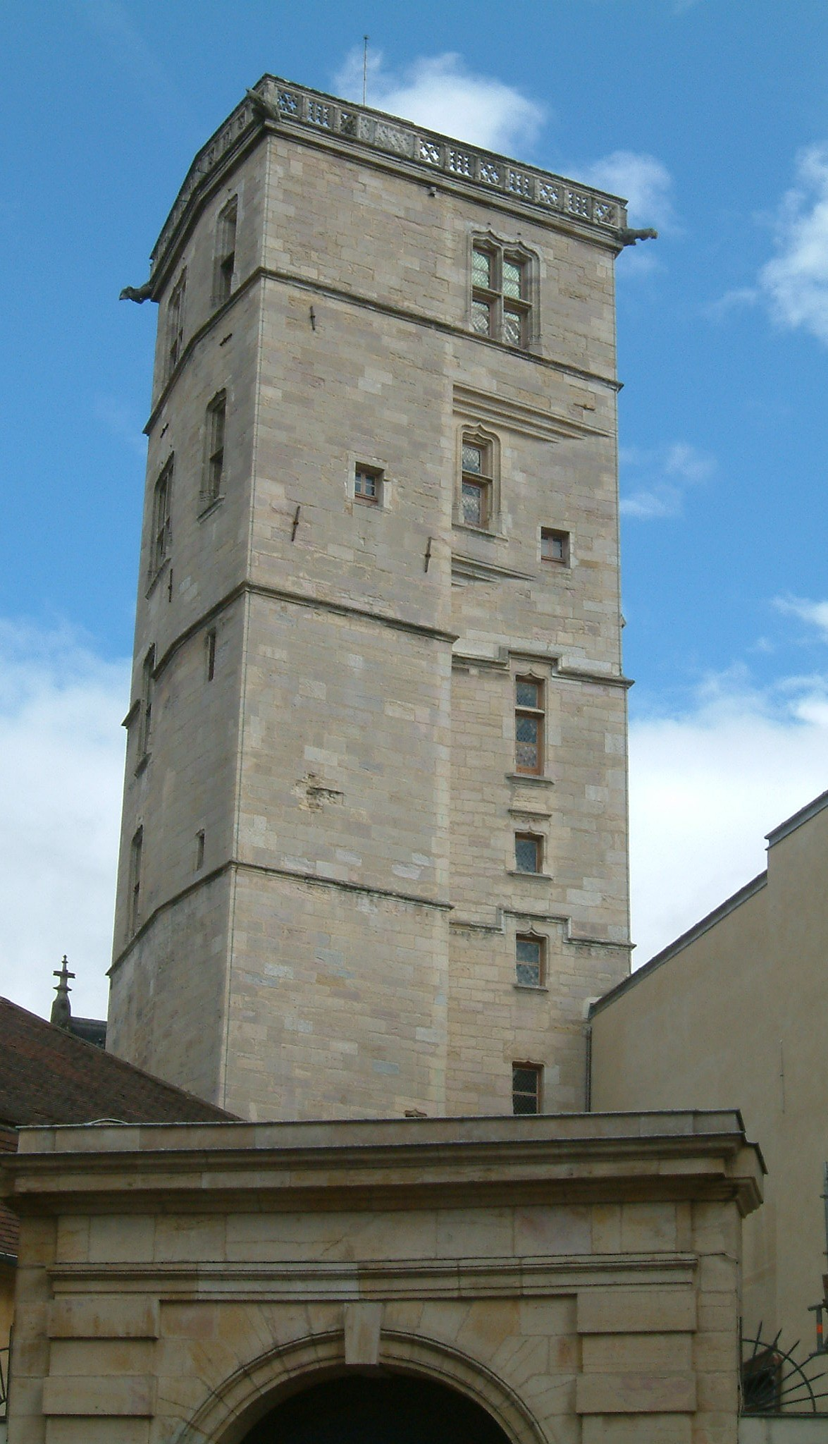 Philippe-le-Bon tower, Dijon, Burgundy, FRANCE